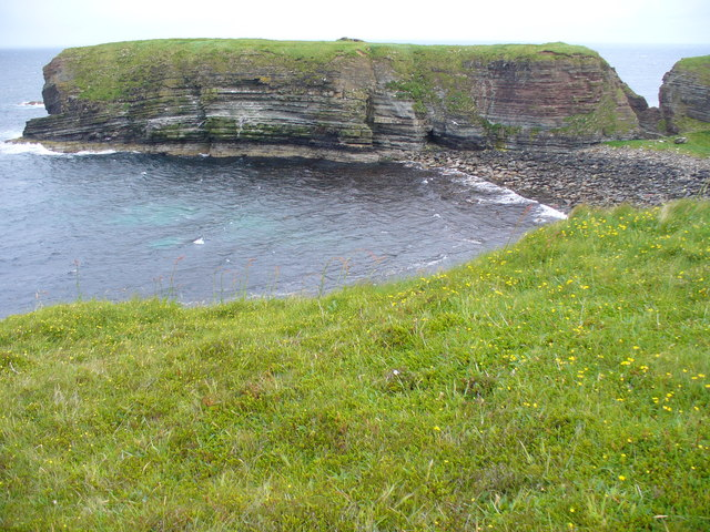 Brough of Deerness from the West The very neck of land connecting the headland to the mainland is very evident. the bump on the top of the headland is the remains of the Celtic Church's monastery.